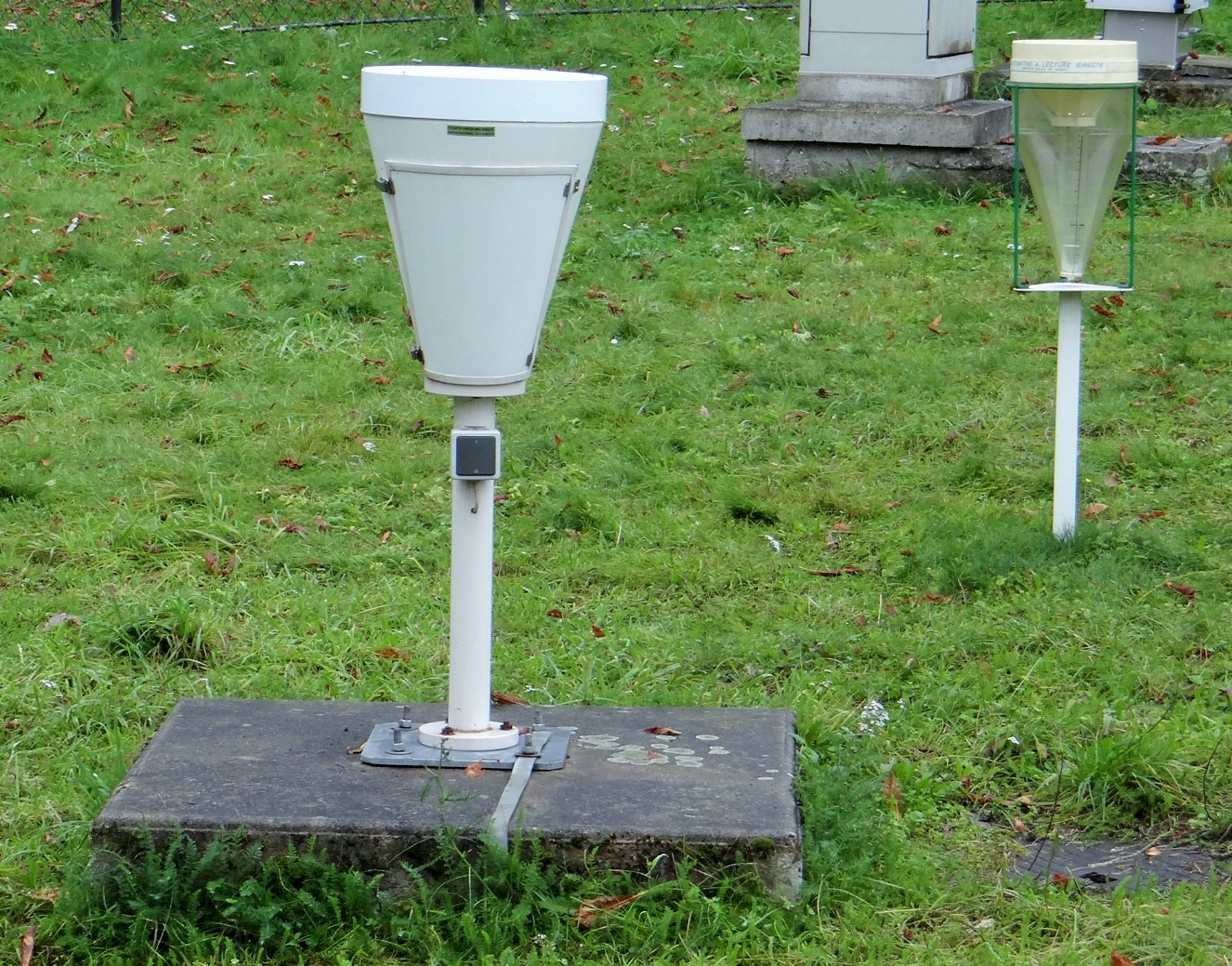 Rain gauges at the meteorological station Parc Montsouris in Paris